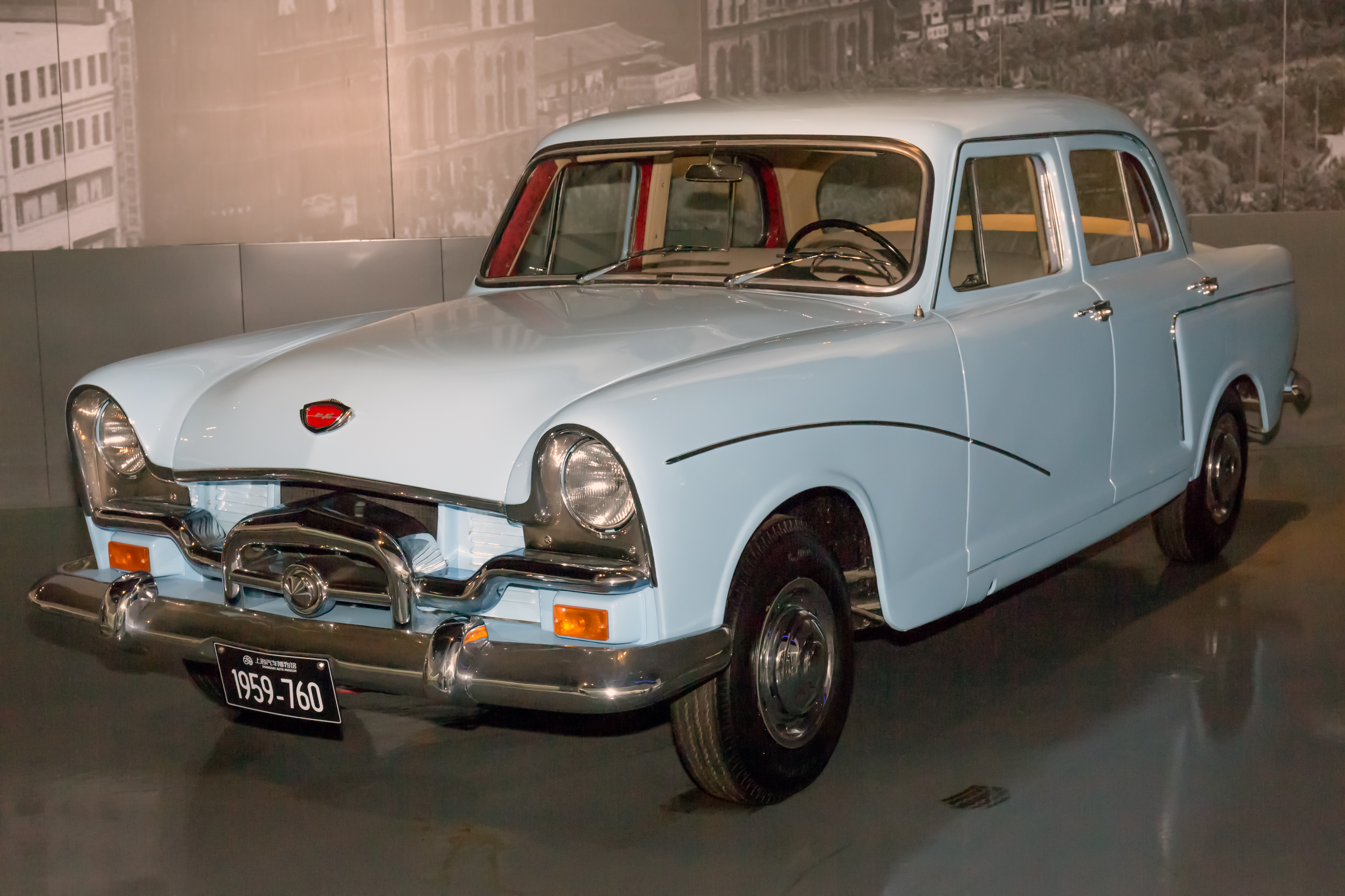 1959 Shanghai SH760